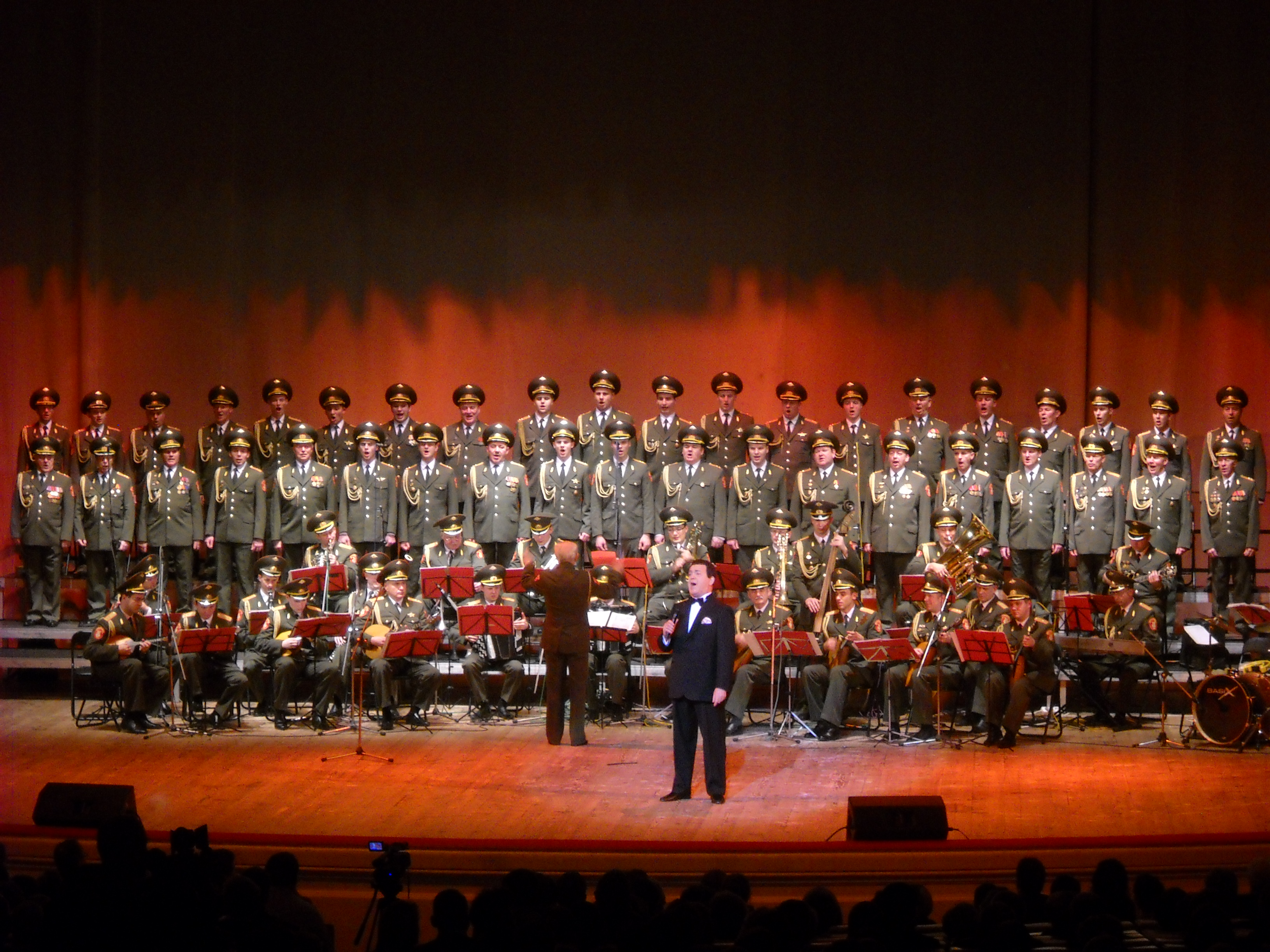 Alexandrov Choir and Yosif Kobzon sing in Warsaw, October 2009